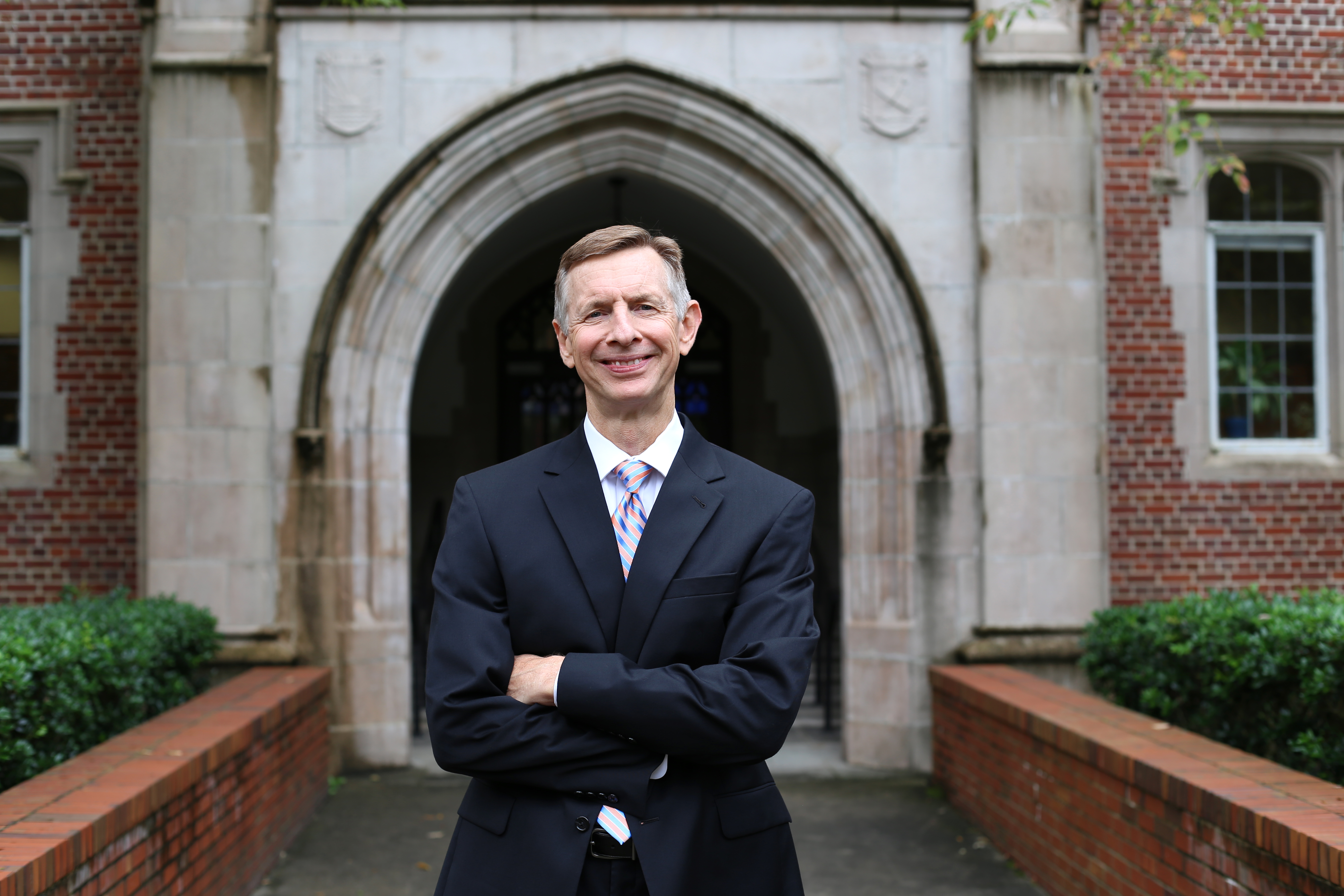 Photo of Dean Glenn E. Good at the University of Florida College of Education